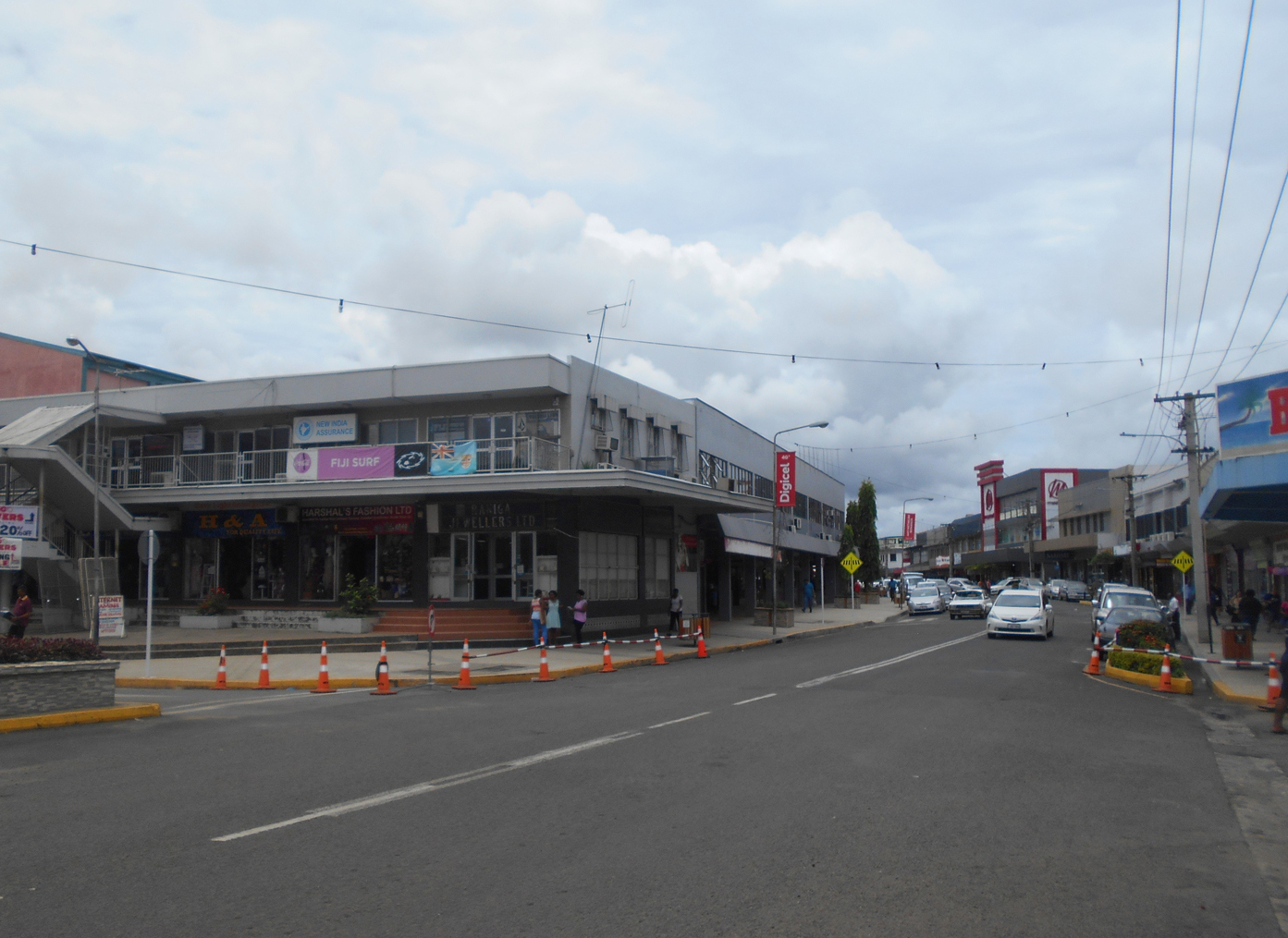 Photo from the book "Two months of wanderings ...", p. 43., ISBN 978-5-9909912-5-5 © Pinchuk V.., 2020